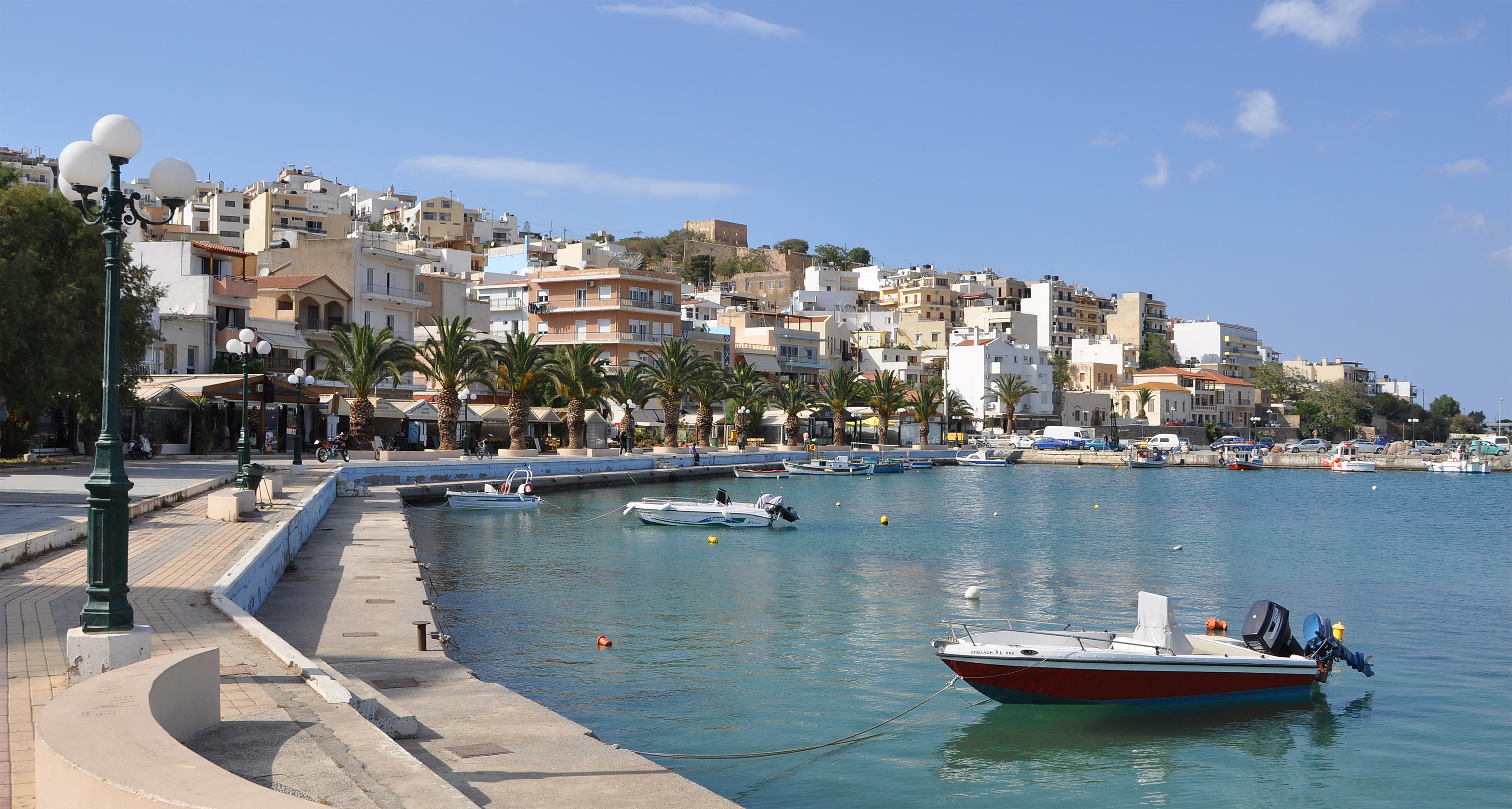 Sitia (Crete, Greece): the harbour